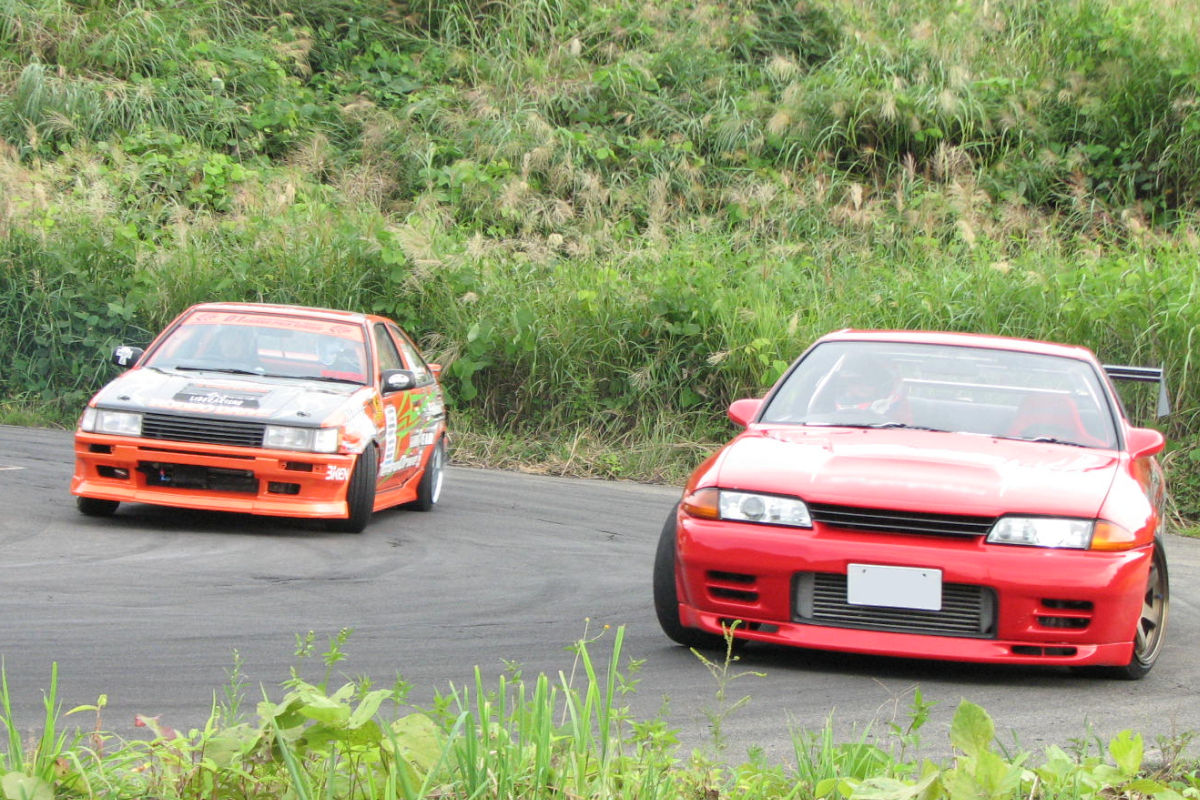 Drifting Toyota AE86 and Nissan Skyline(R32).